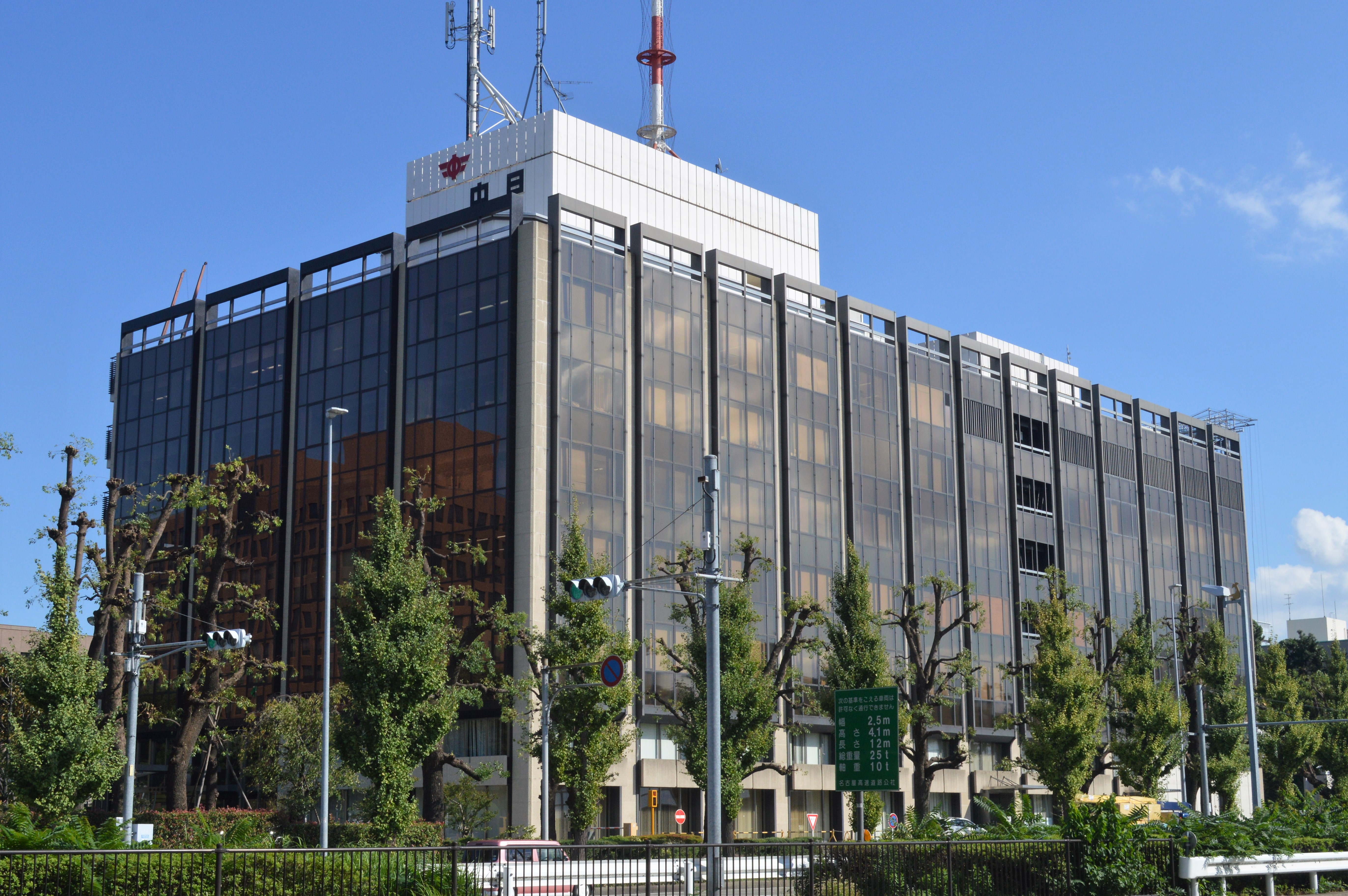 Headquarters of :en: Chunichi Shimbun|Chunichi Shimbun Co., Ltd in Nagoya city, Aichi prefecture, Japan.